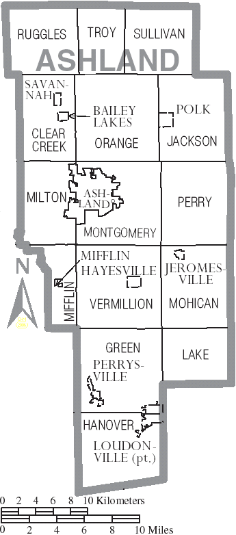 Map of Ashland County, Ohio, United States with township and municipal boundaries